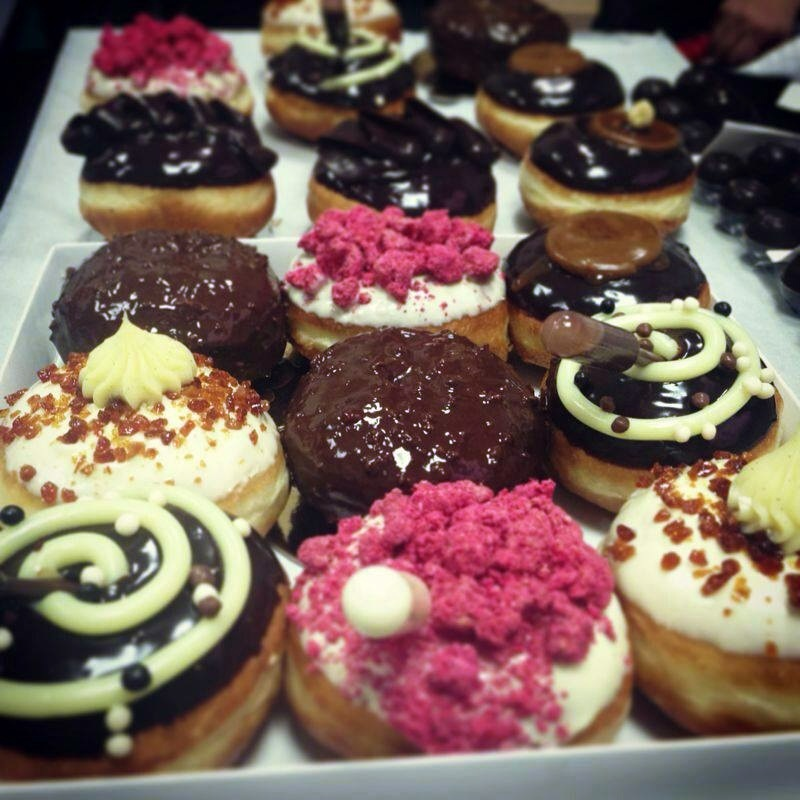 סופגניות 1. מערבבים את כל החומרים במיקסר מלבד השמרים והחלב. מוסיפים את החלב, כמעט את כל הכמות, וממשיכים לערבל במהירות איטית. ברגע שנוצר בצק, מגבירים את מהירות הלישה. מוסיפים שמרים ולשים כ- 5 דקות. 2. מכסים ונותנים לתפוח. 3. לאחר התפיחה, מוציאים את הבצק מהסיר ומכדררים לעיגולים מביאים לתפיחה נוספת, ומטגנים בשמן עמוק כ- 7 דקות. לפני הגשה, מפדרים באבקת סוכר ומזריקים ריבה או קרם גאנש שוקולד